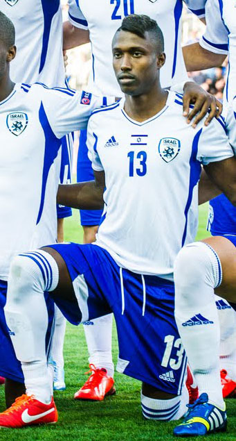 . Taleb Tawatha, UEFA U21s Football championships in Israel between Israel & Norway Photo By David Katz